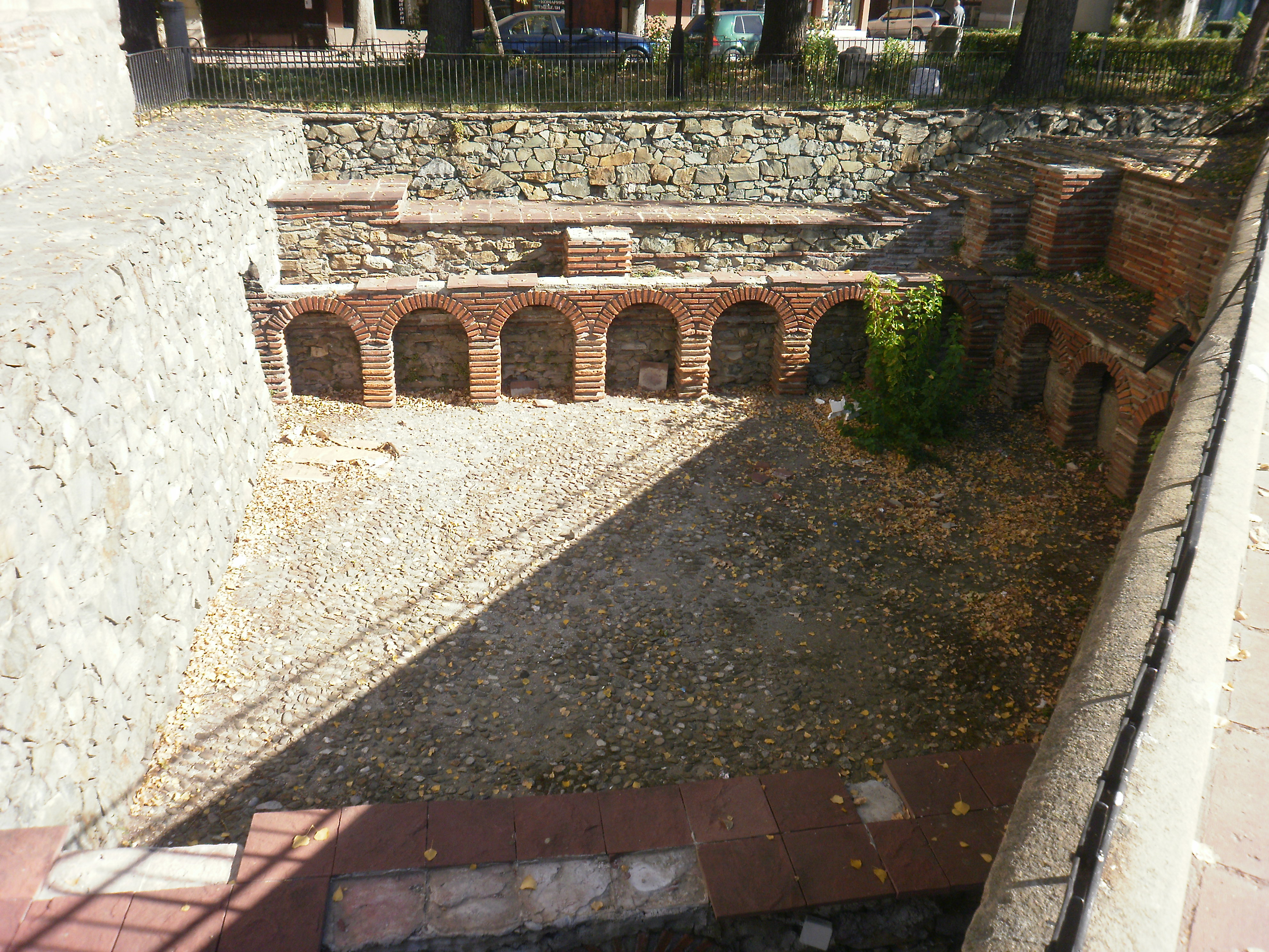 Roman thermae complex in Kyustendil, Bulgaria.